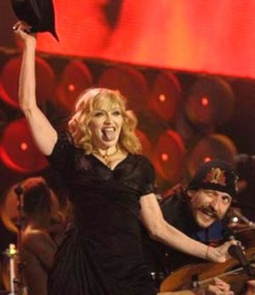 Madonna performing "La Isla Bonita" on the Live Earth concerts